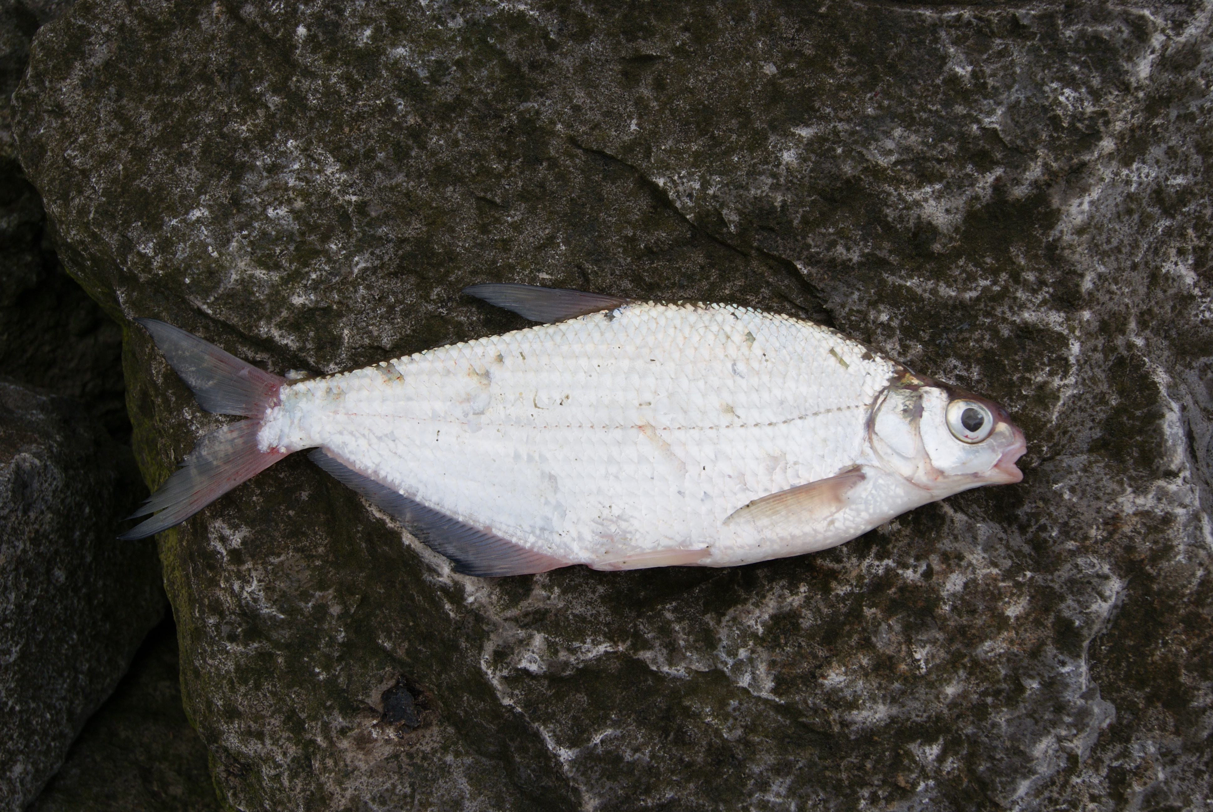 Abramis sapa from the Rhine (Waal, Halderen, the Netherlands. Exotic species but maybe abundant here already.